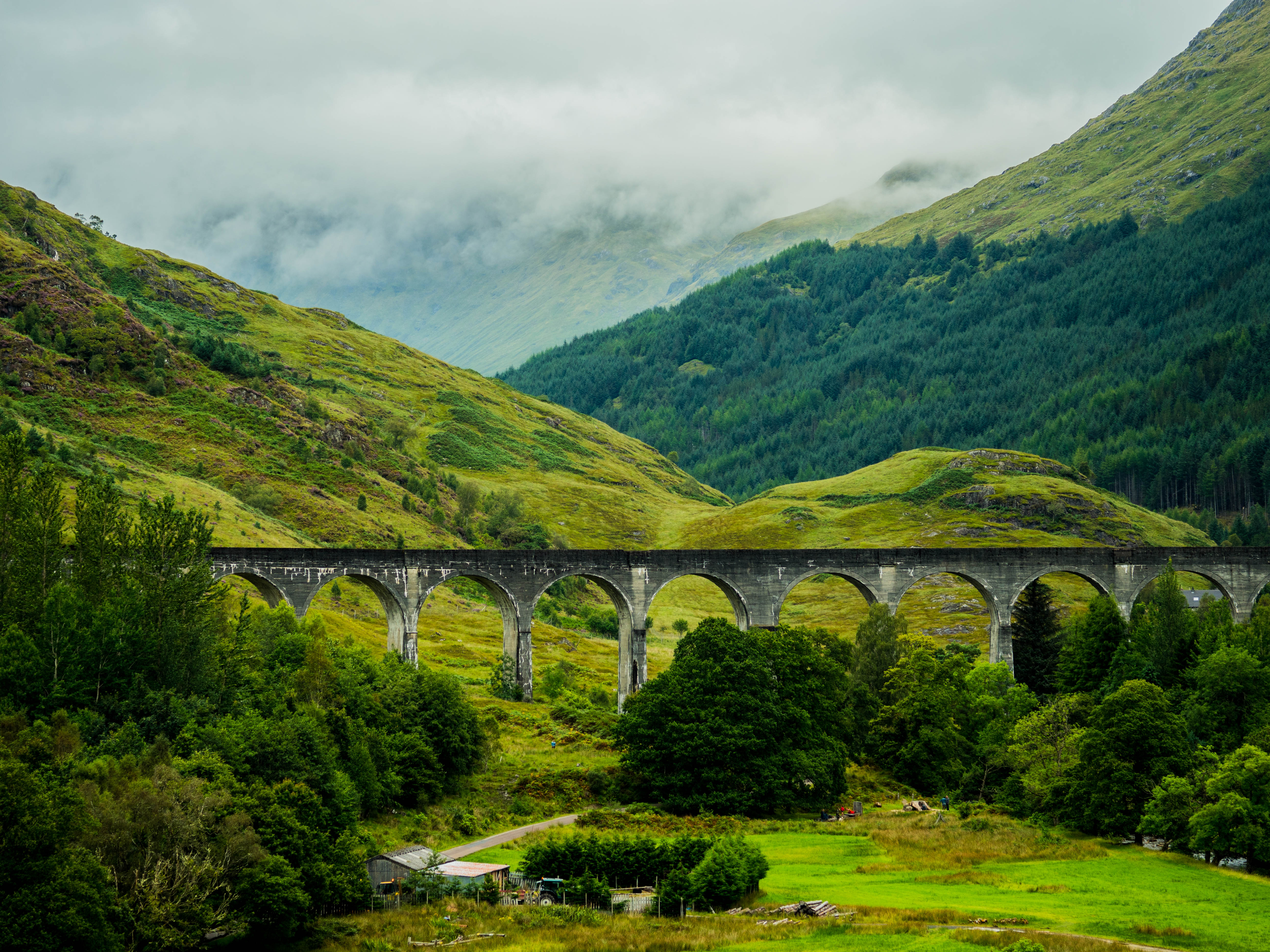 Glenfinnan Viaduct Wikidata has entry Q1155735 with data related to this item.